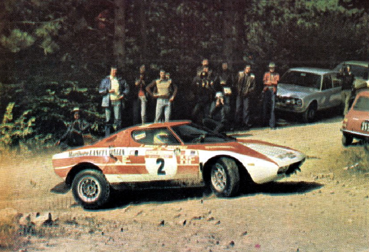 Italian rally driver Sandro Munari and his co-driver Mario Mannucci on a Lancia Stratos HF (Group 4) sponsored Marlboro at the 1974 Rallye Sanremo.